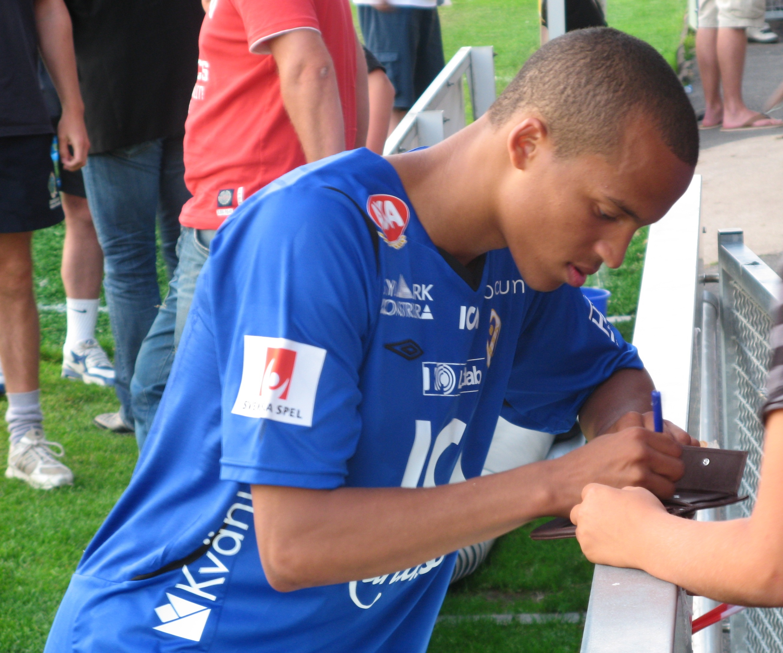 Marcus Olsson signing autografs